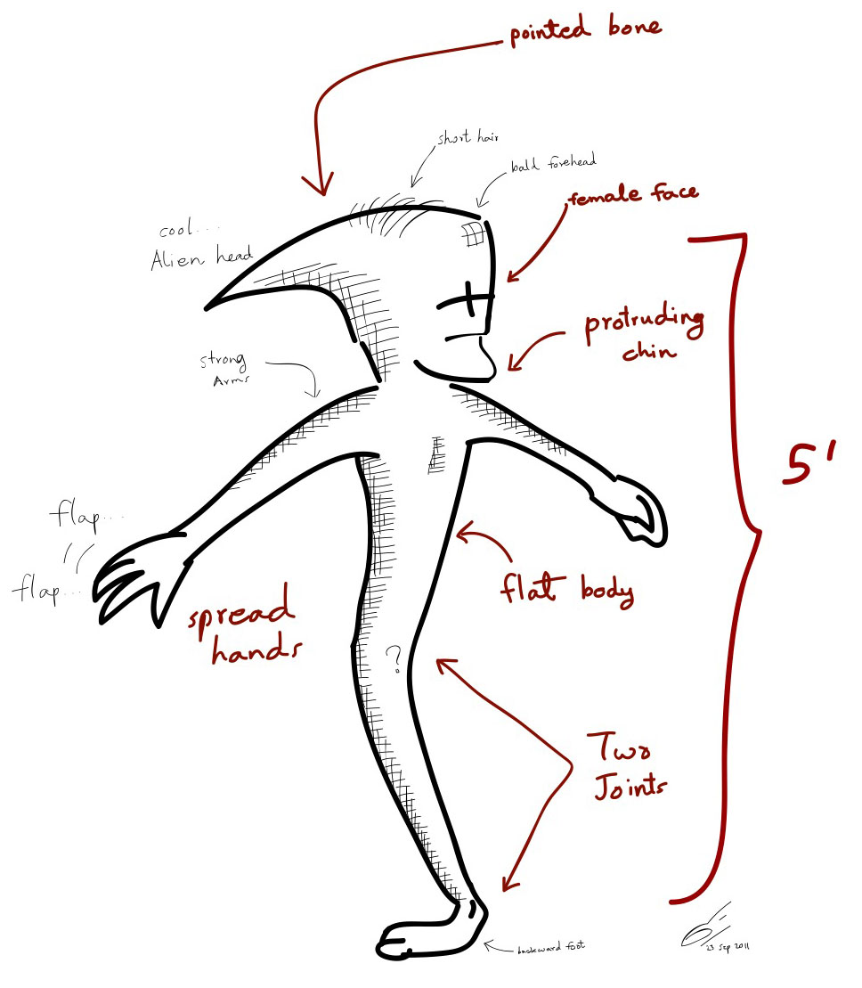 Ngaun is a strange legendary humanoid one-legged creature found in history records of Myanmar. မြန်မာဘာသာ: /ŋáʊ̃/) သည် မြန်မာ့သမိုင်းမှတ်တမ်းများတွင်ပါသော ဒဏ္ဍာရီဆန်ဆန် ထူးဆန်းသည့် ခြေတစ်ချောင်းသာရှိသည့် လူတူသတ္တဝါတစ်မျိုးဖြစ်သည်။